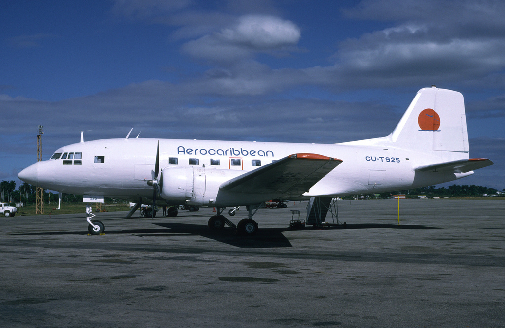 Aerocaribbean Ilyushin Il-14M at Havana Airport